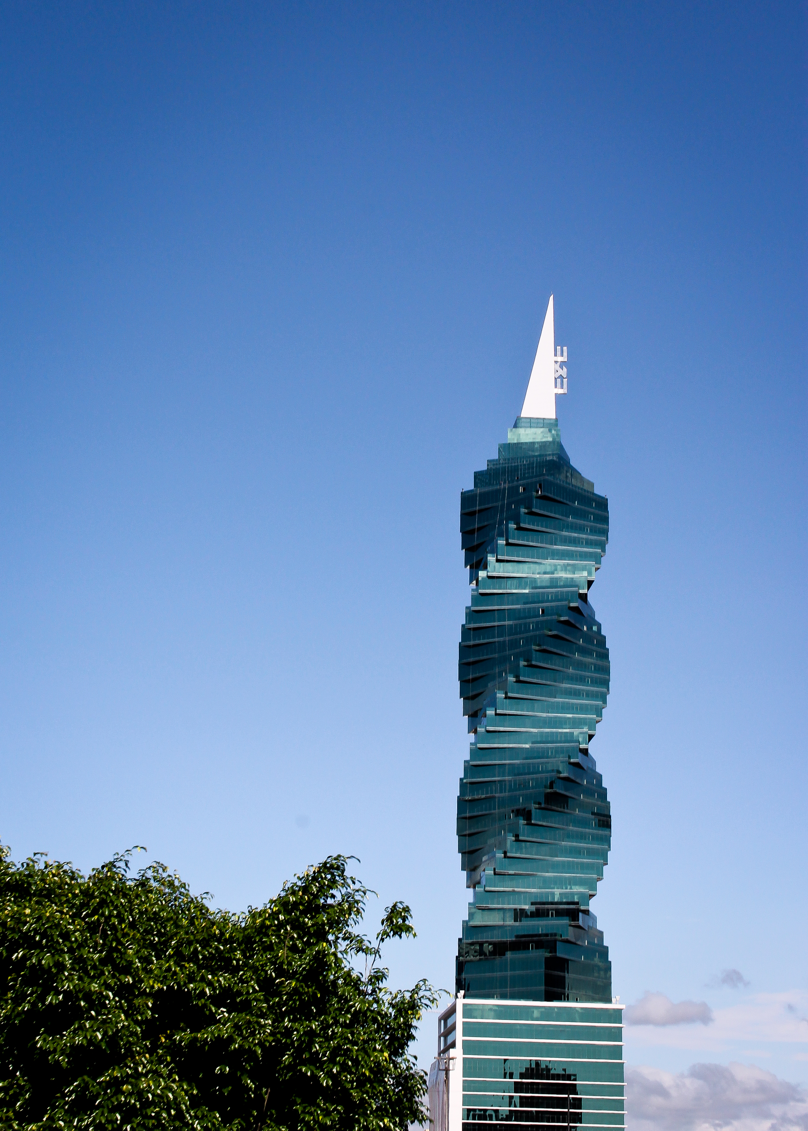 F&F Tower Panamá